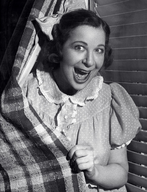 Photo of Fanny Brice as Baby Snooks from the radio program of the same name.